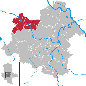 VG Egelner Mulde in Saxony-Anhalt - District Salzlandkreis